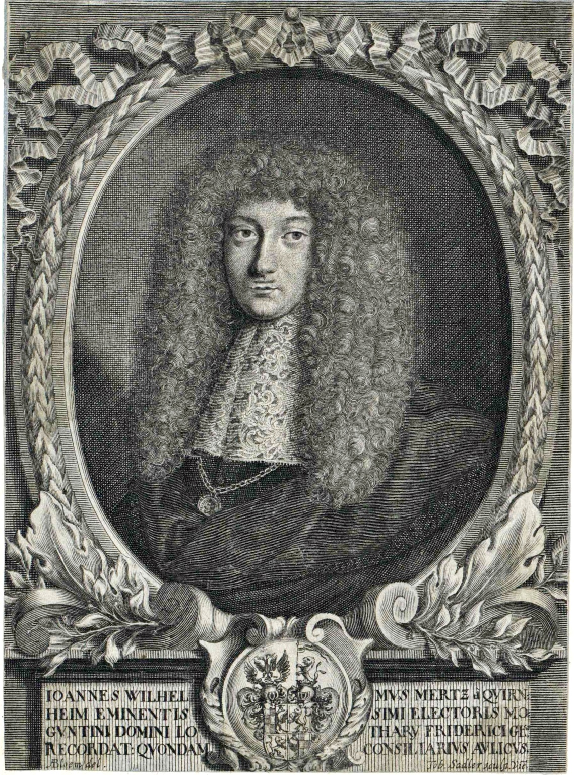 Johann Wilhelm Merz von Quirnheim (1652-1718), Reichshofrat